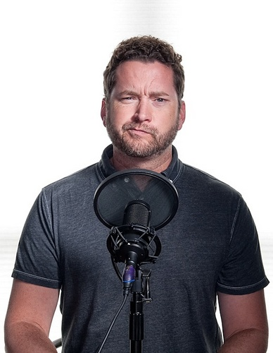 Burnie Burns 2011 headshot, taken at Rooster Teeth Productions HQ in Austin, Texas